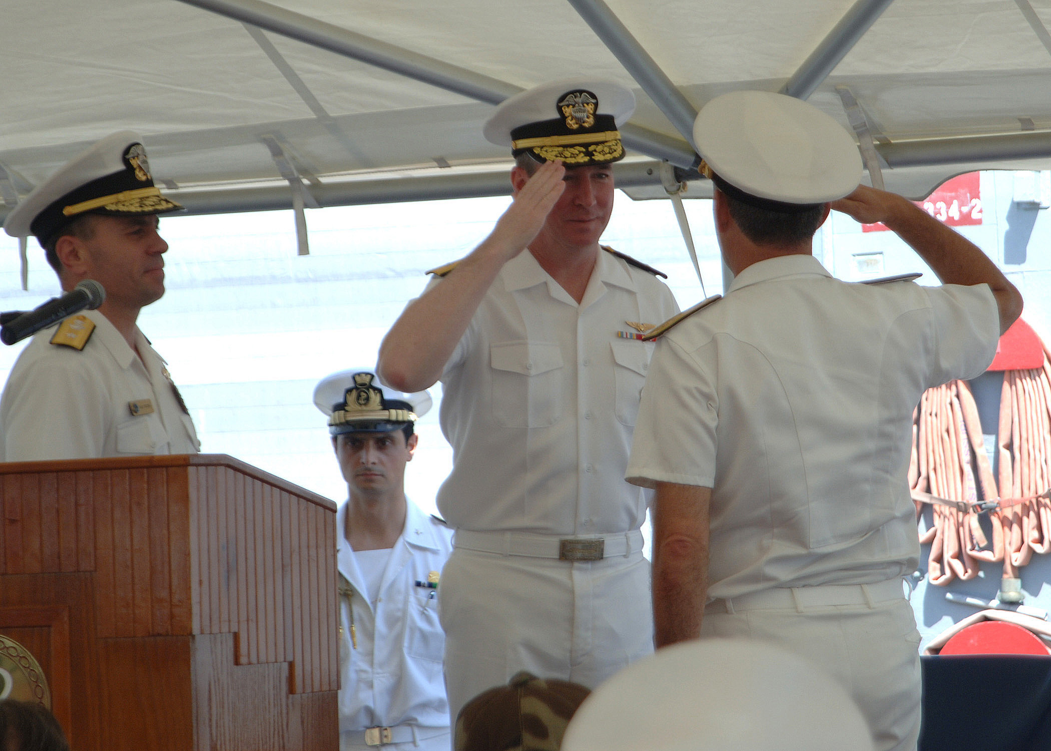 MANAMA, Bahrain- Rear Adm. John Miller, deputy commander, U.S. Naval Forces Central Command/5th Fleet, salutes Italian Rear Adm. Salvatore Ruzittu, as Ruzittu assumed command of Combined Task Force (CTF) 152 during a transfer of control ceremony aboard USS Nicholas (FFG 47), June 28. Ruzittu relieved U.S. Navy Rear Adm. Ray Spicer as commander, CTF 152. This marks the first time that all three of the major maritime CTFs in the region have been commanded by officers from nations other than the U.S. or U.K. CTF 152 is responsible for conducting Maritime Security Operations (MSO) in the central and southern Arabian Gulf. Coalition forces conduct MSO under international maritime conventions to ensure security and safety in international waters so that all commercial shipping can operate freely while transiting the region. Official U.S. Navy photo by Photographer's Mate 2nd Class Carolla Bennett.